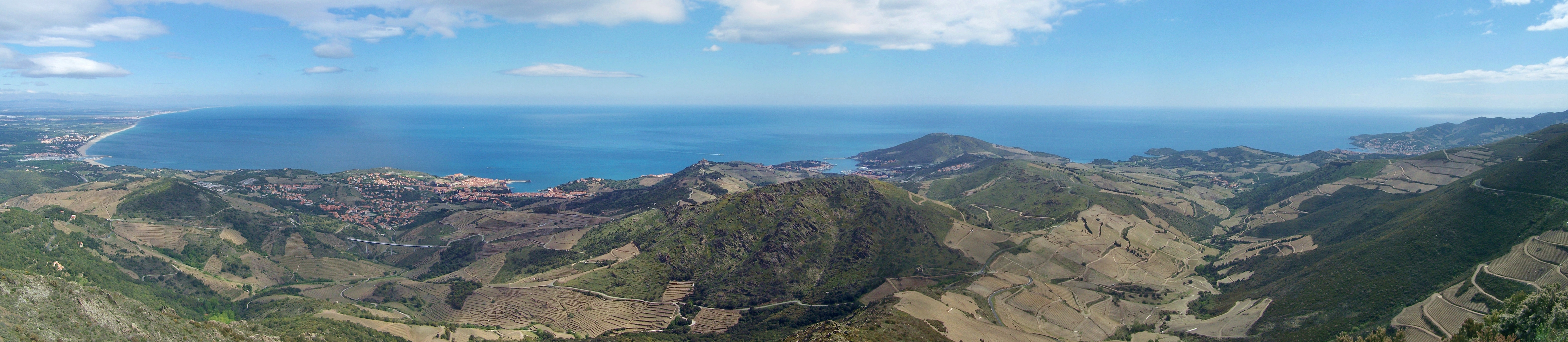 Panoramic view of the Côte Vermeille ("Vermilion Coast") - seen from the Madeloc tower - in the very South of France (department of Pyrénées-Orientales).From left to right can be seen cities are Argelès-sur-Mer / Argelès-Plage, Collioure, Port-Vendres and Banyuls sur Mer. Spanish border stands some kilometers away from Banyuls.